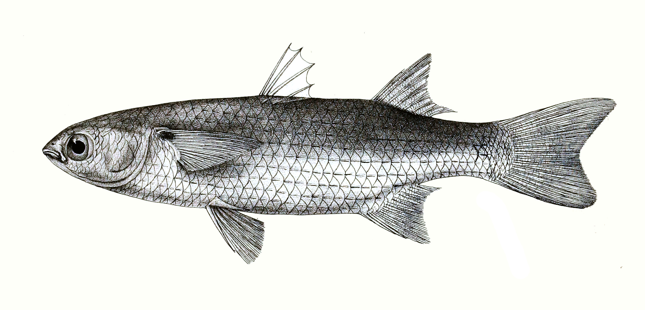 Moolgarda cunnesius syn. Mugil cunnesiusThe species names / identity need verification. The original plates showed the fishes facing right and have been flipped here. Mugil cunnesius